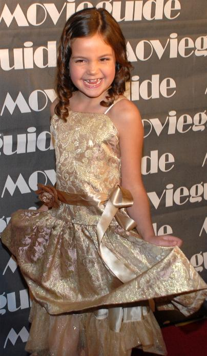 Actress Bailee Madison at the 16th Annual MovieGuide Faith and Values Awards Gala.